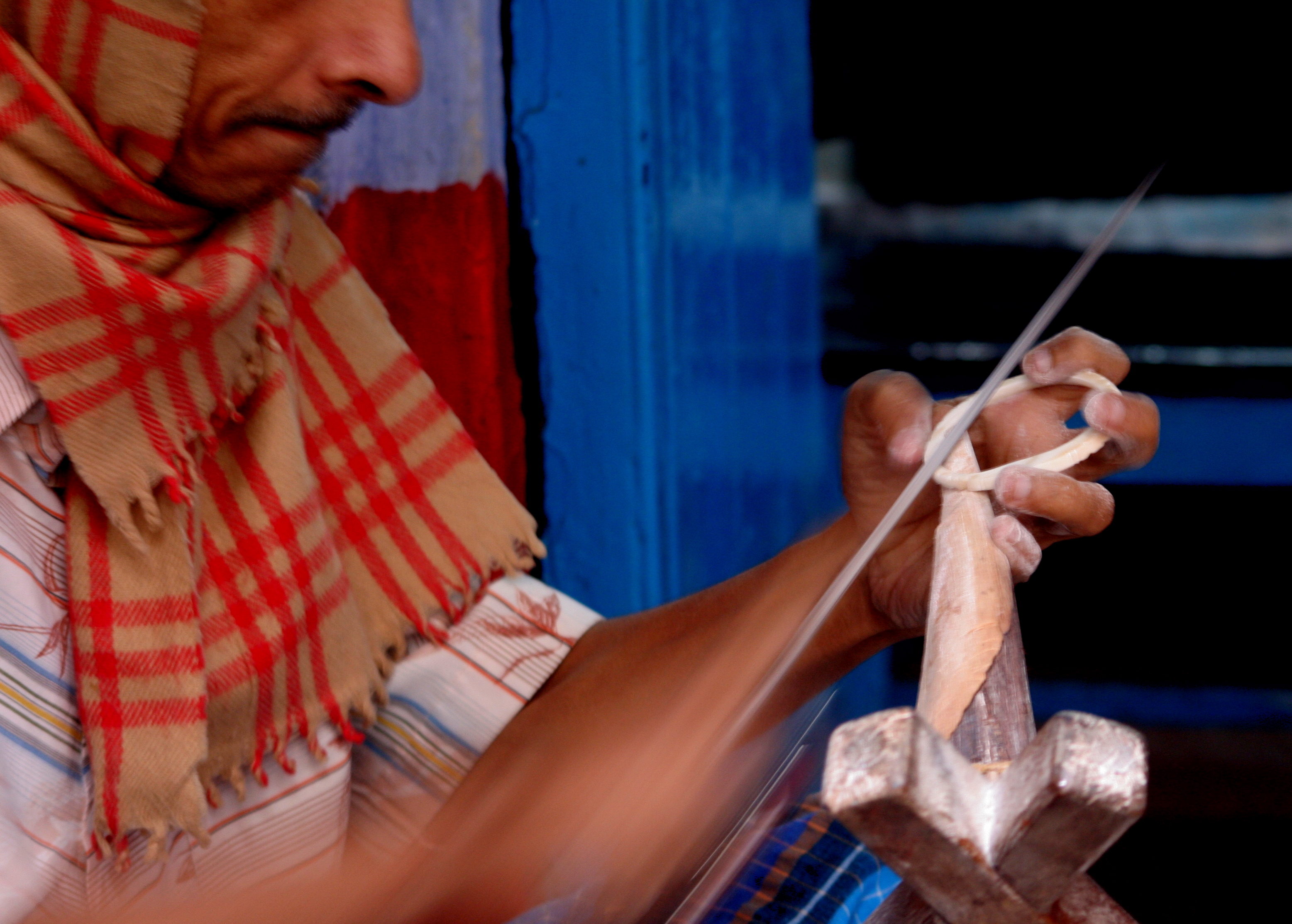 Designing the conch bracelet.